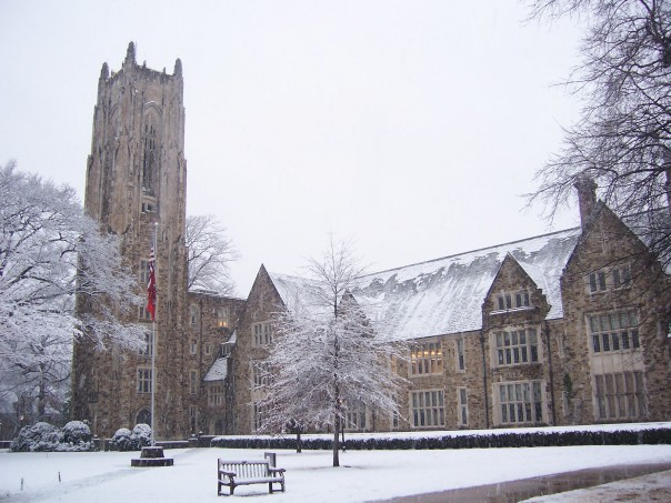 Palmer Hall and Halliburton Tower, Rhodes College